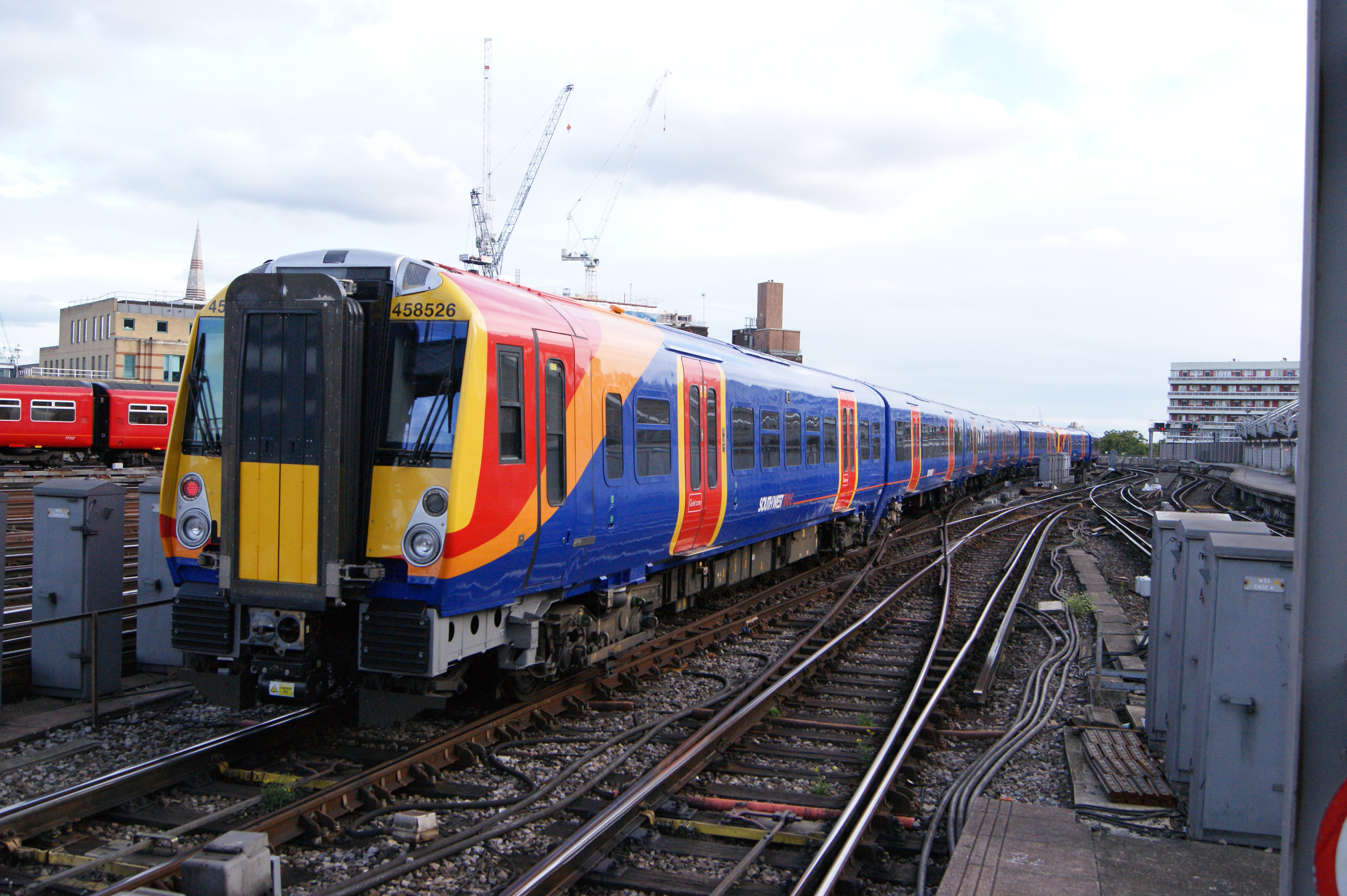 Alstom (Birmingham) Class 458/5 "Juniper" or '5-JOP' 5-car 750v dc 3rd rail emu No.458 526 of South West Trains in their outer suburban livery departing Waterloo on a service to Windsor, 13 September 2015.